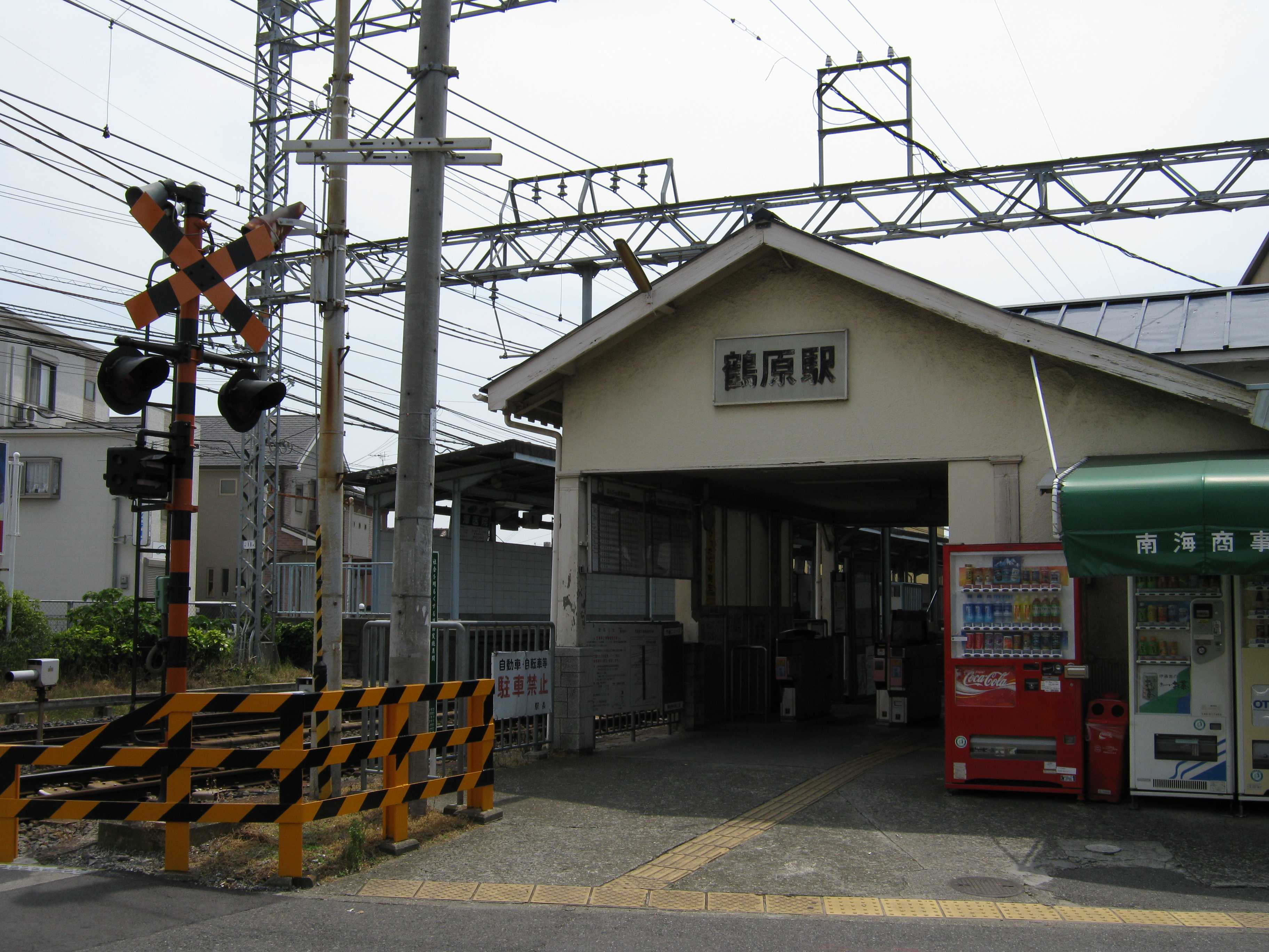 Turuhara Station, Izumisano, Osaka.